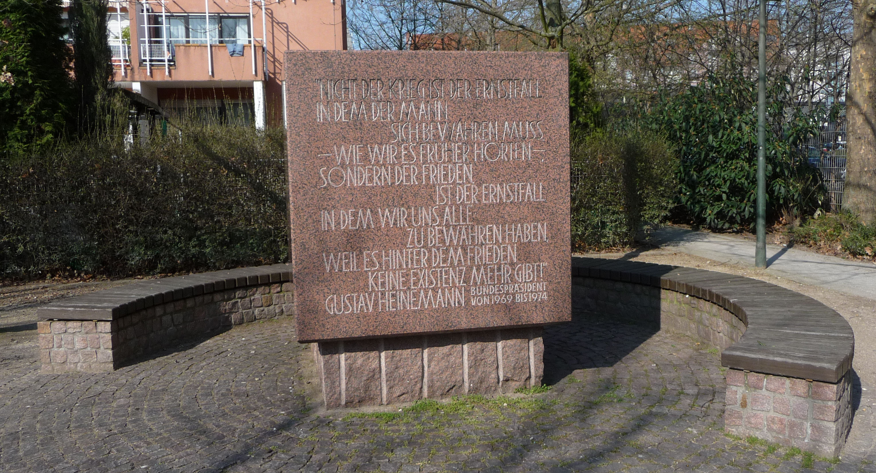 Friedenspark in Ludwigshafen, Germany